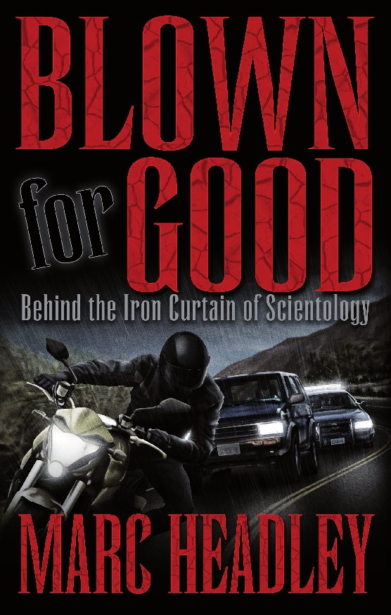 Book cover of Blown for Good by Marc Headley, high quality JPG version, made from PDF File:BFG dustjacketcoveronly.pdf.